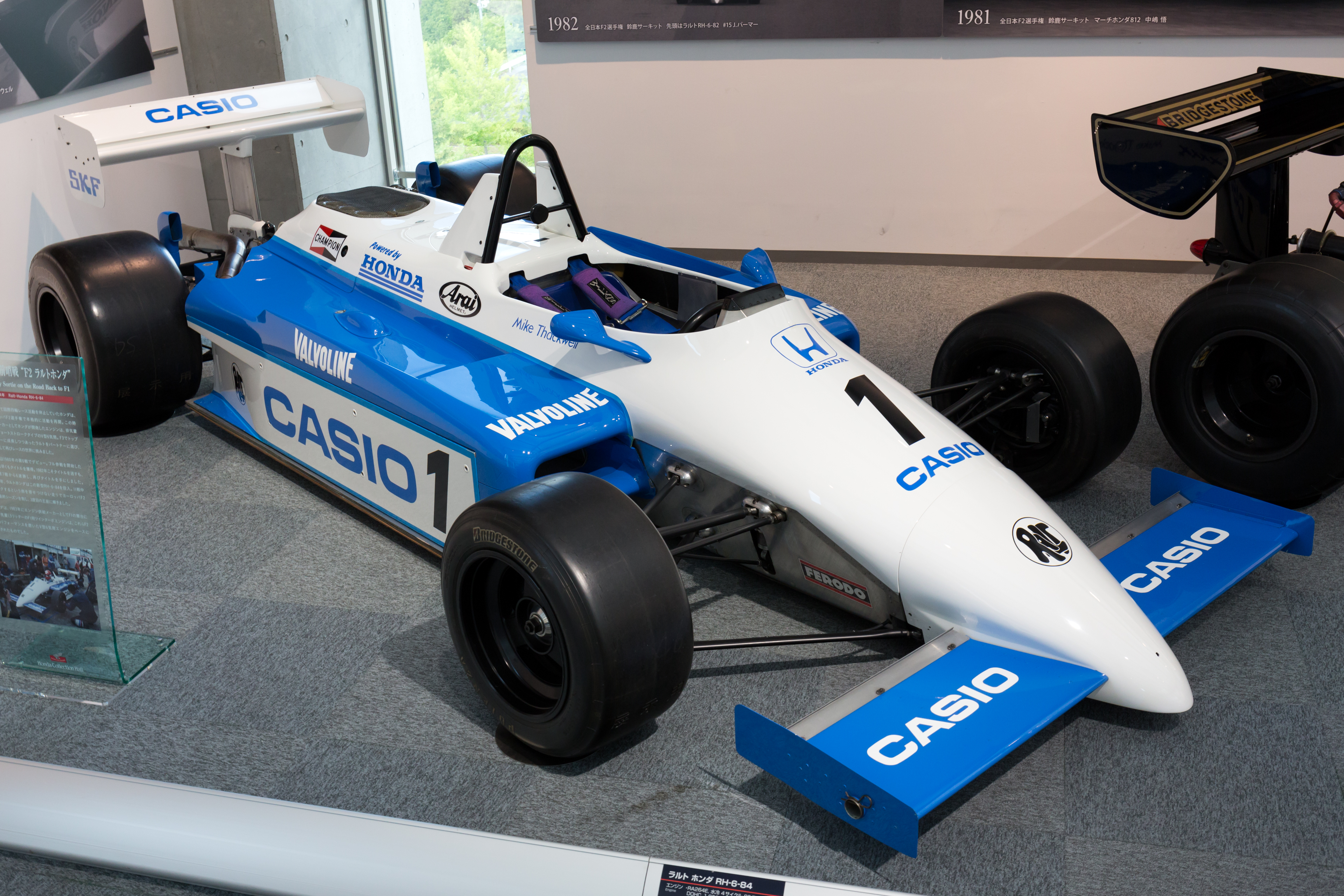 1984 Ralt RH6 (European Formula Two Championship) of Mike Thackwell at Honda Collection Hall, Motegi, Tochigi, Japan.